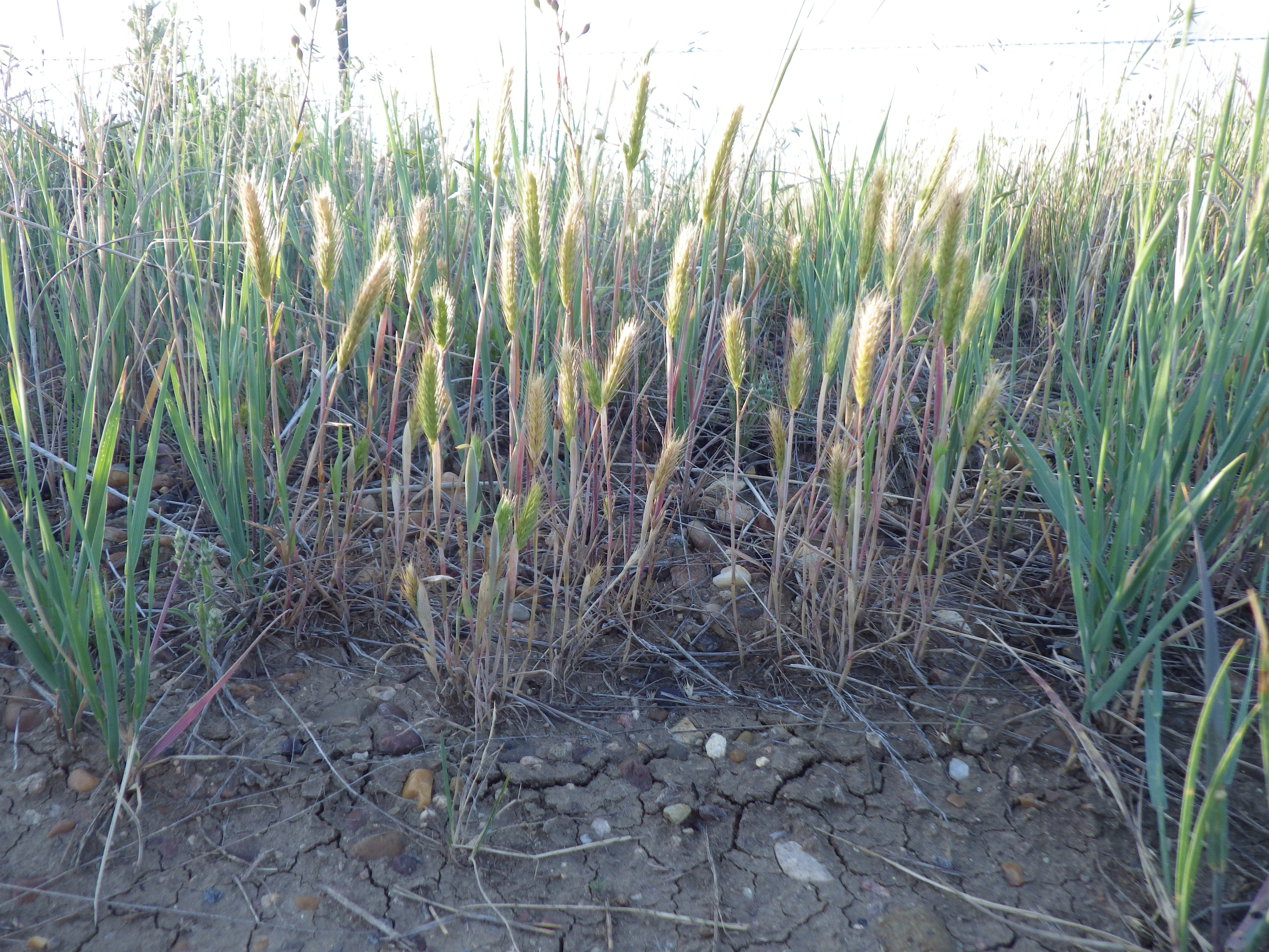 A native annual with a predilection for disturbance-prone settings, little barley was especially abundant during a summer following a dry fall and winter and when most other plant species were not flowering.